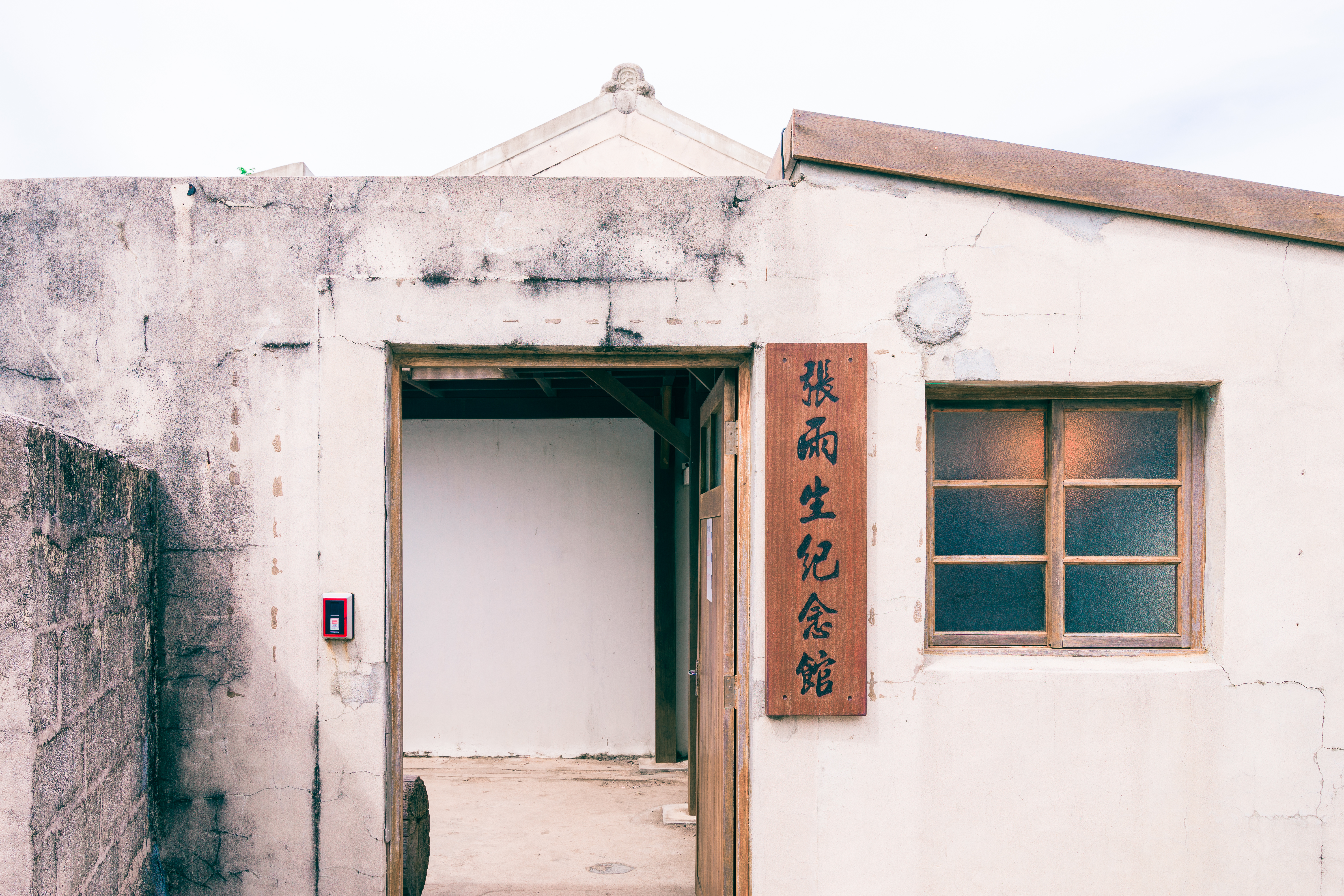 Chang Yu-sheng Memorial Museum.中文（台灣）: 張雨生紀念館，位於澎湖縣馬公市新復里2巷22號。